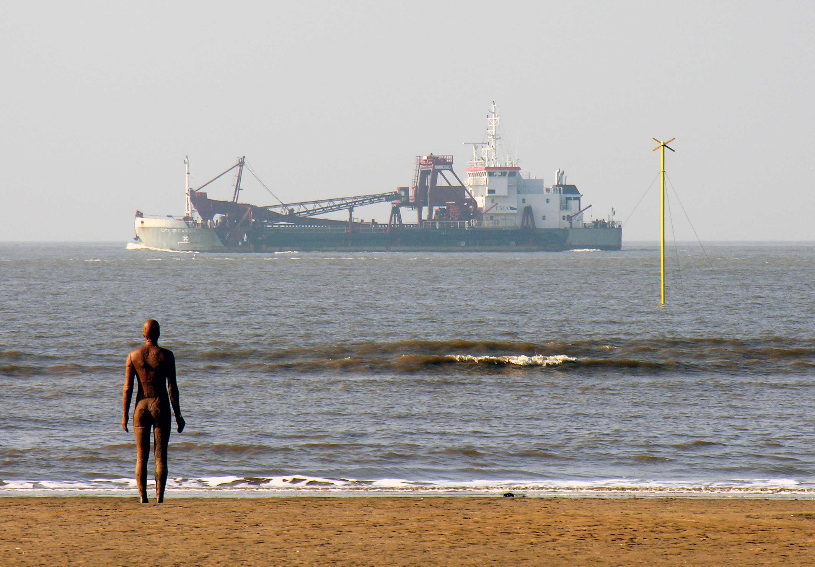 Antony Gormley's 'Another Place' installed on Waterloo Beach, Crosby, Merseyside, England Ship name: City Of Cardiff Type: Dredger IMO Number: 9141754 MMSI Number: 232002807 Callsign: MWBY8 Length: 72 m Beam: 14 m